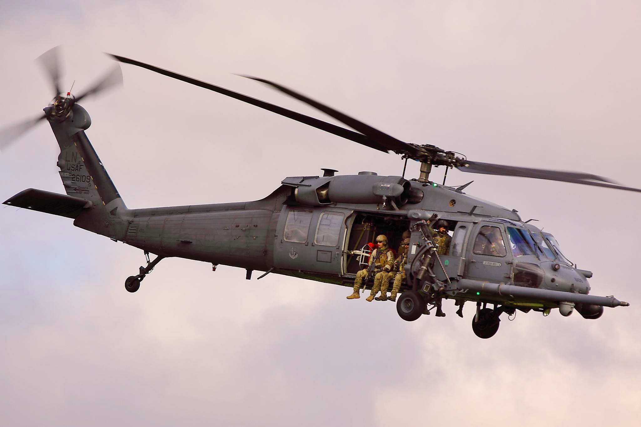 HH60 Pave Hawk - American Air Day Duxford